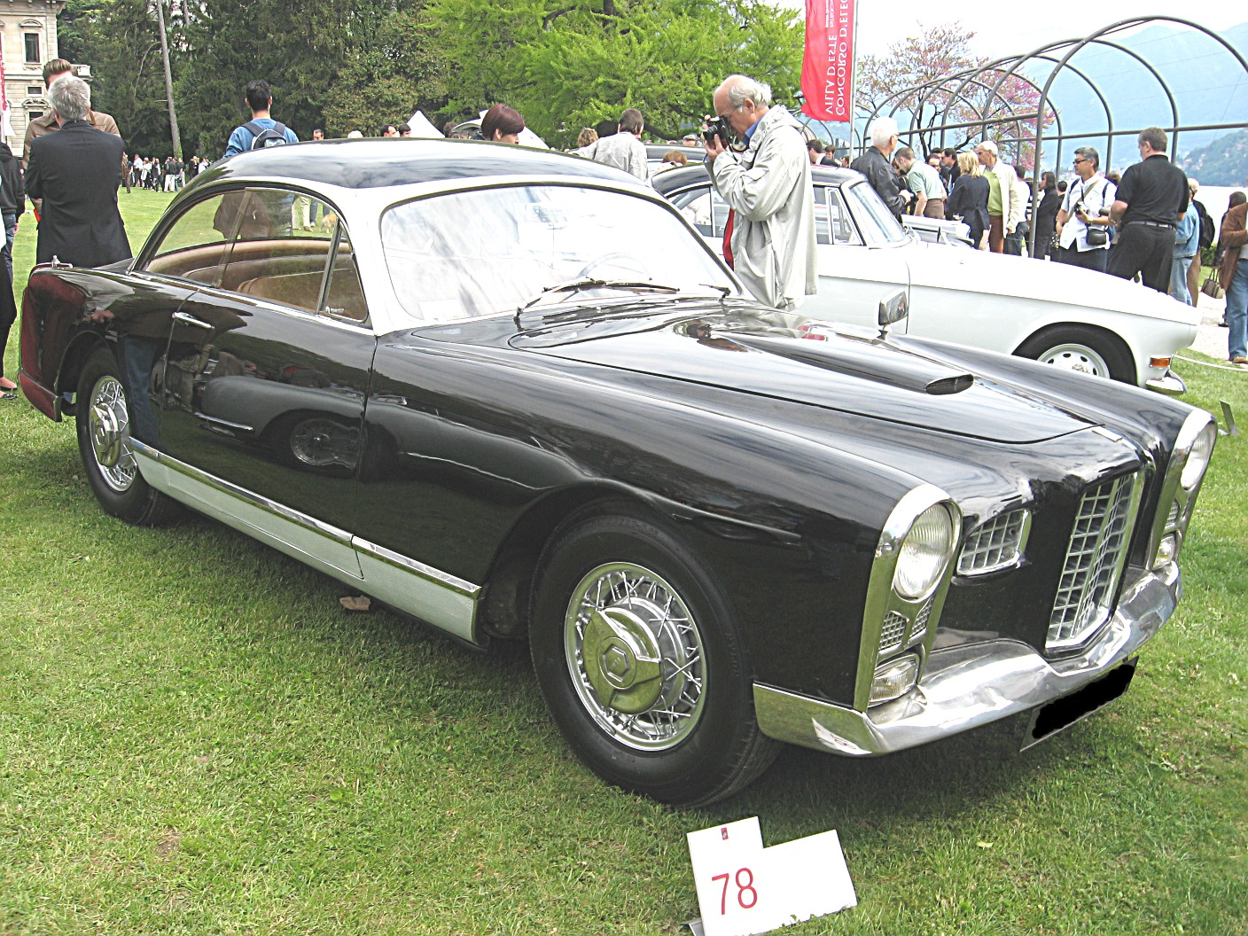 Subject:Facel Vega FV Date:April 27th, 2008 Event:Concorso d’Eleganza”Villa d’Este” 2008 Place/Country: Cernobbio (CO), Italy I release all rights in the public domain.